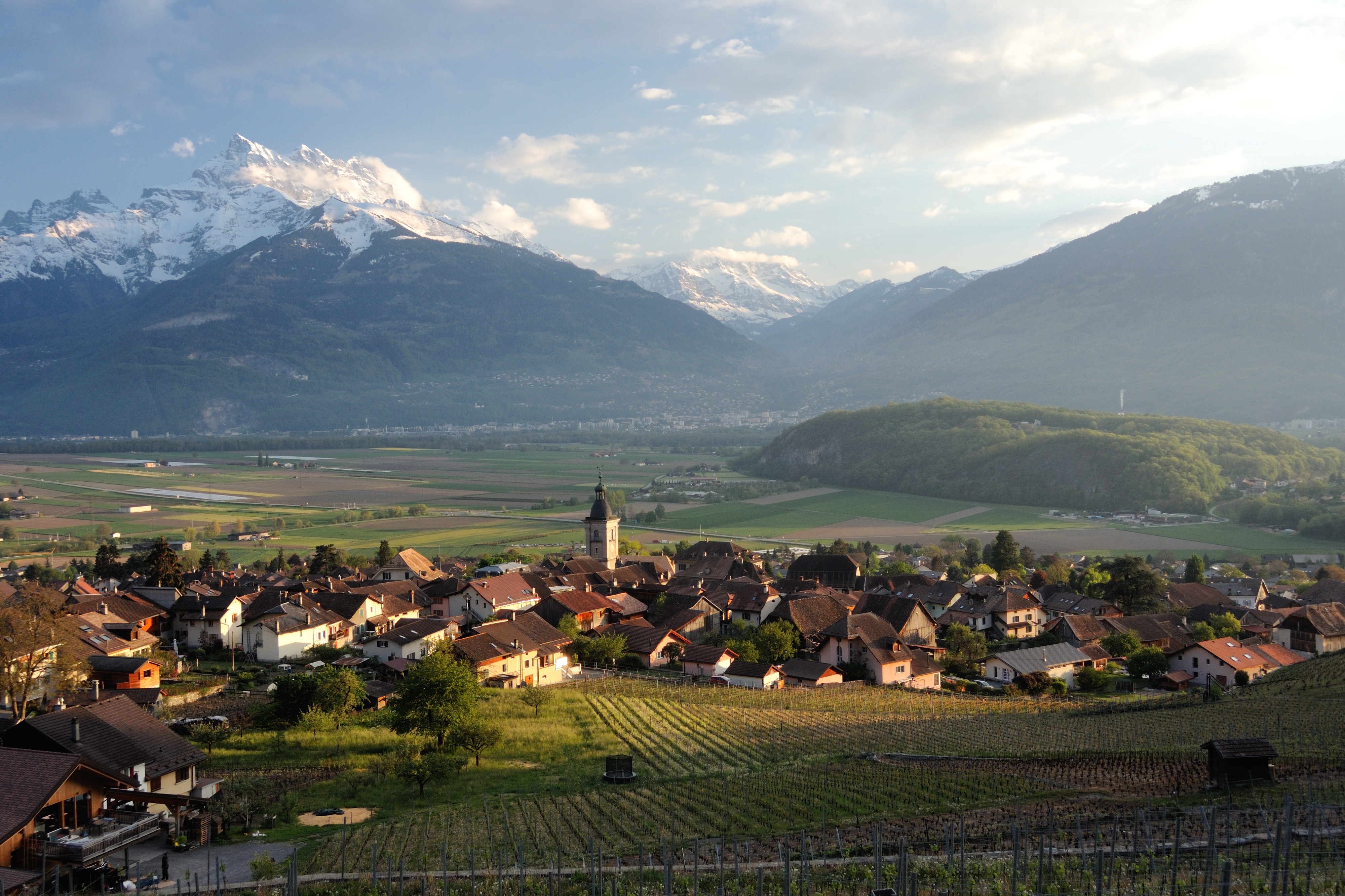 Ollon with the Dents du Midi in background, across the Rhone Valley. View from the vineyards north of the town.